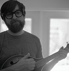 Portrait of Brautbar in Silverlake Los Angeles with musical instrument